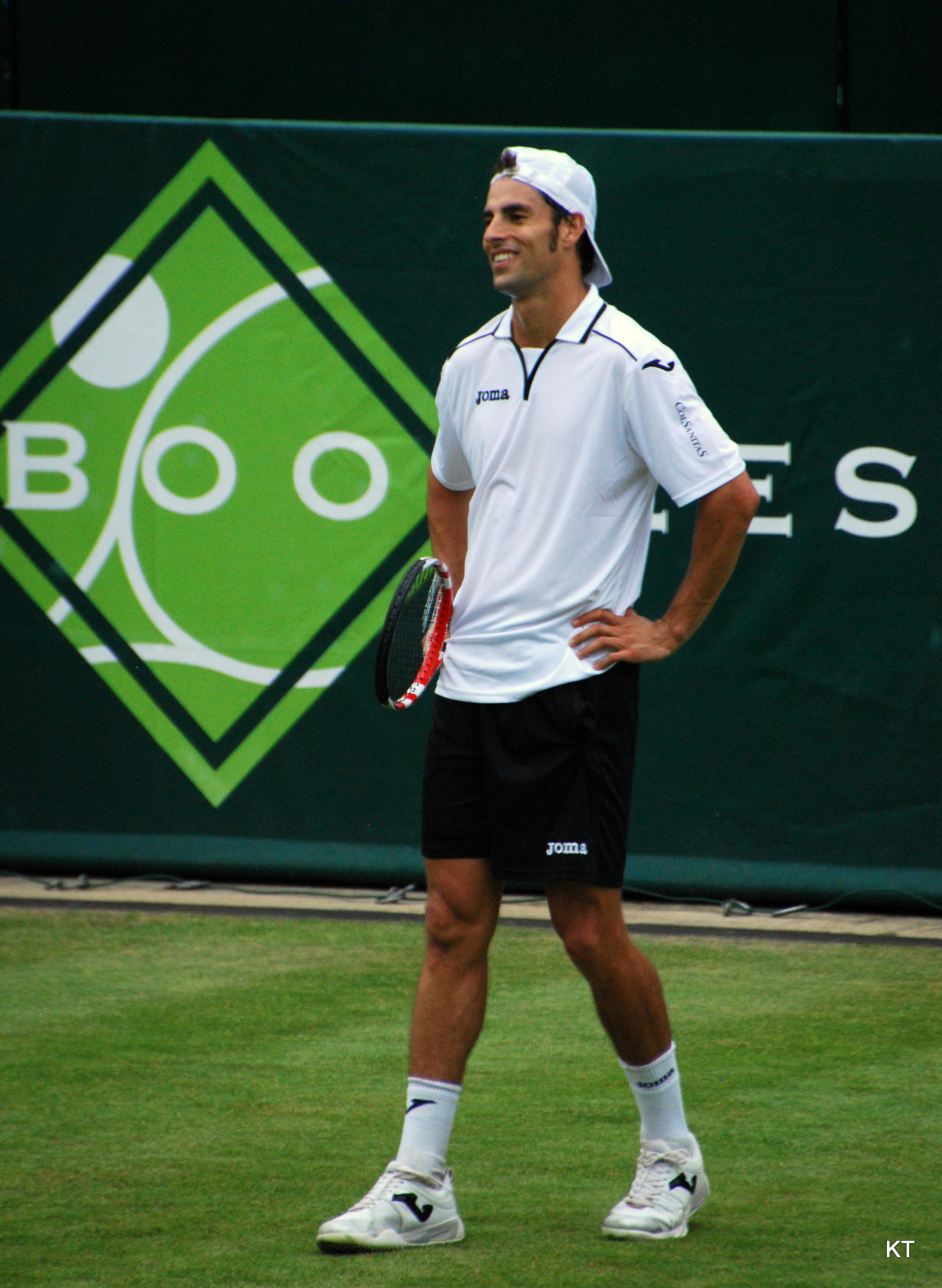 Looking a little out of place on grass at the boodles.